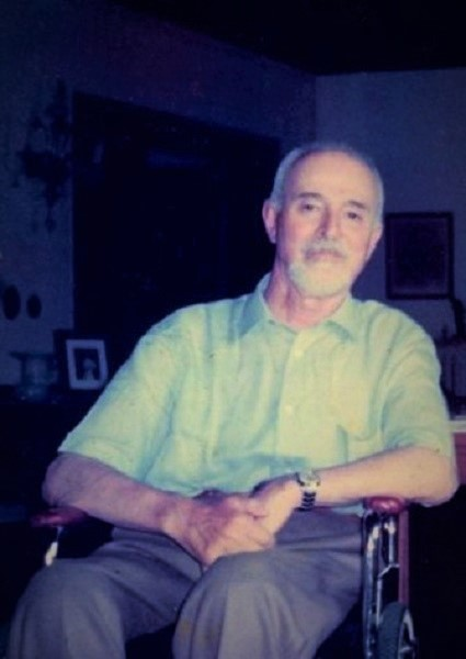 Dott. Prof. Gaetano Cozzi, Venezia, Italia, 1997; casa di San Barnaba, Venezia.